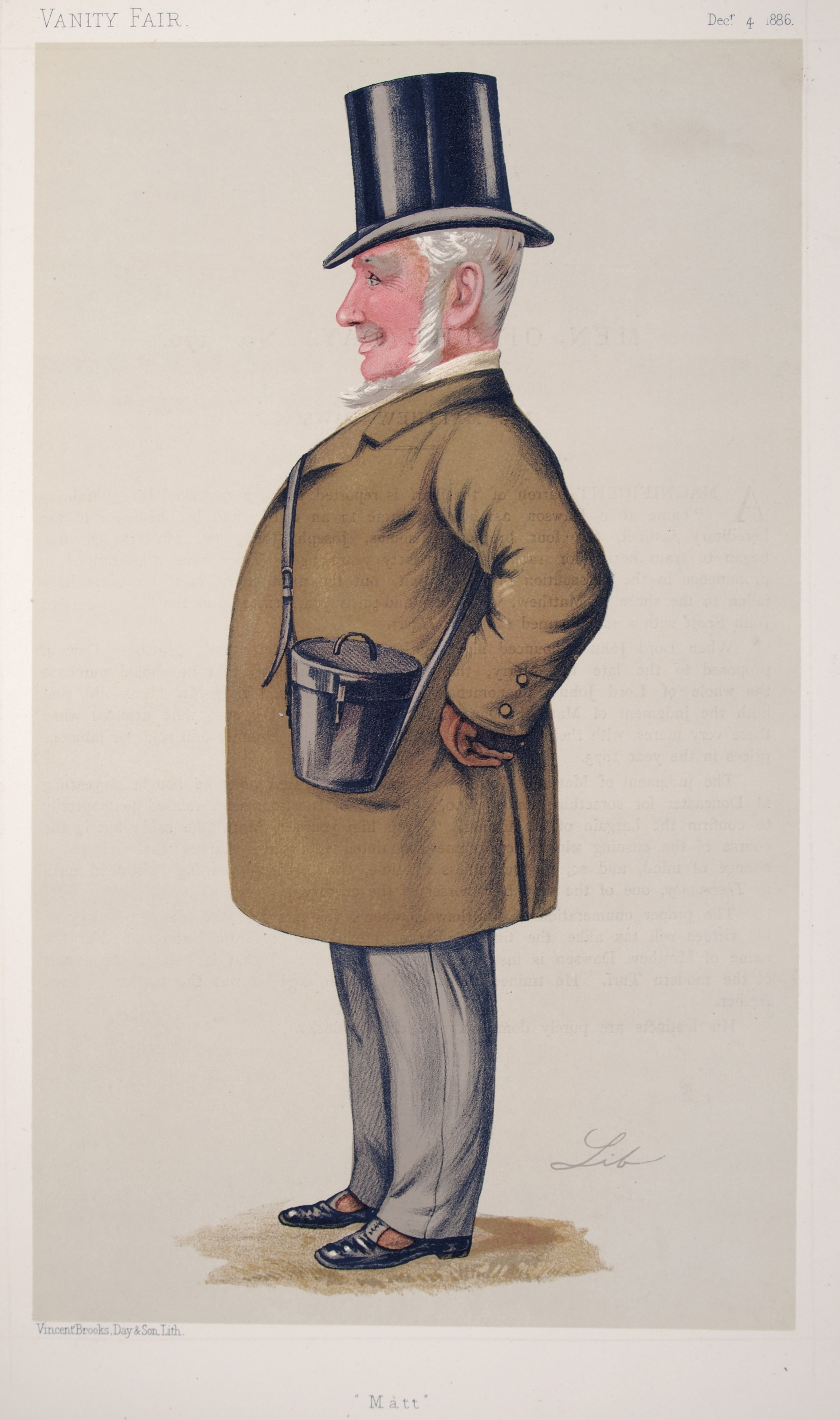 Men of the Day No.0369: Caricature of Mr Matthew Dawson (see [1] for more info). Caption reads: "Matt"